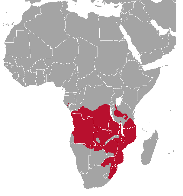 Redunca arundinum range map